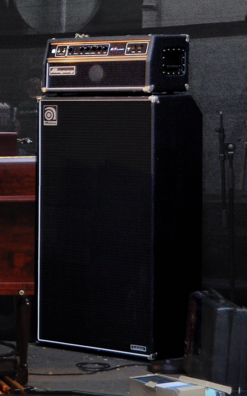 Ampeg bass amp set Ampeg SVT-CLassic Bass Guitar Amplifier head (300W RMS @ 4Ω, 2Ω) Ampeg Classic series SVT-610HLF (6x10" cab), or similar. from stage of Paul Wagnbergs organ unit